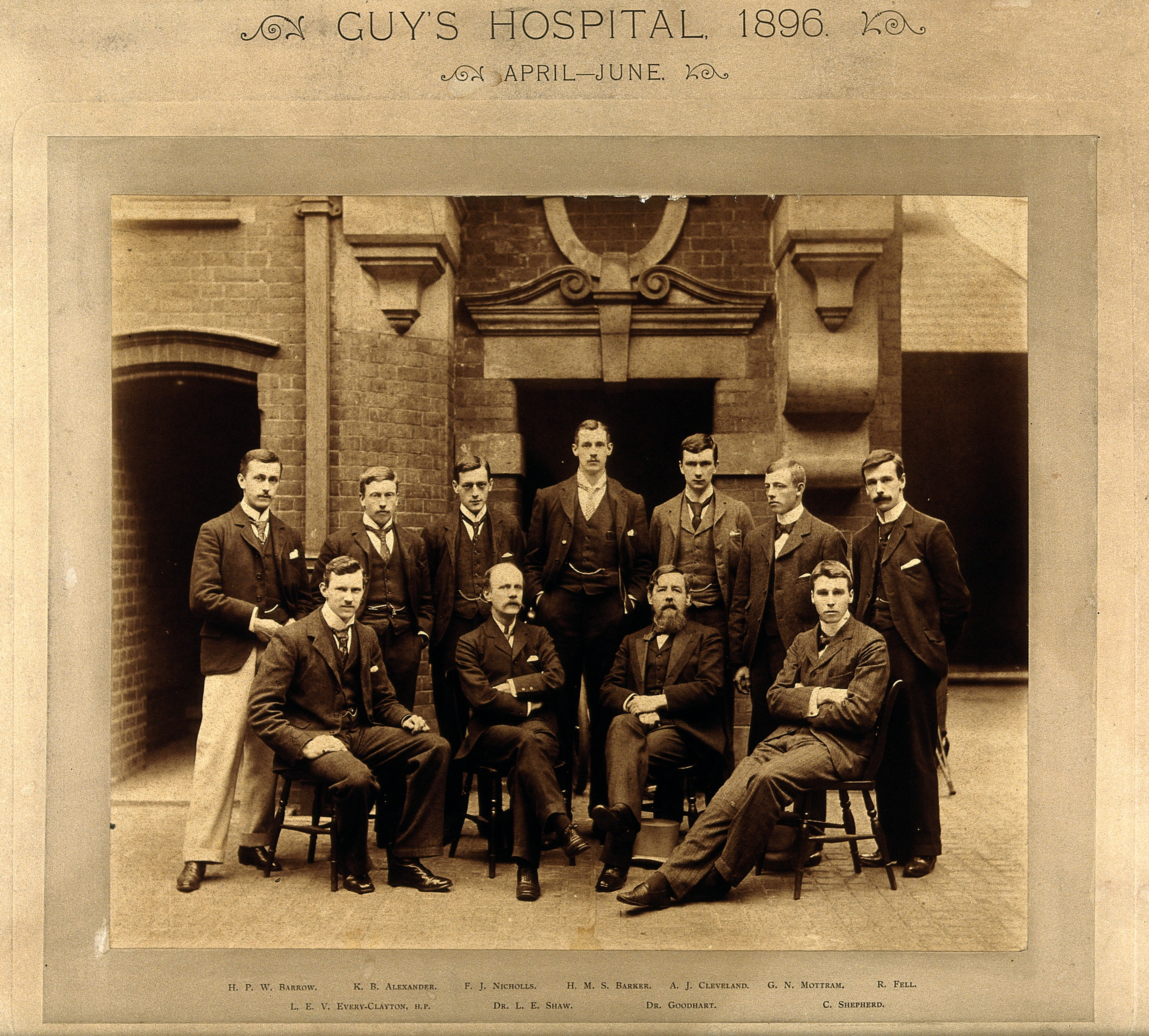 Guy's Hospital: Sir James Frederic Goodhart with Lauriston Elgie Shaw and a group of students. Photograph, 1885. Iconographic Collections Keywords: Guy's Hospital.; Lauriston E. Shaw; James Frederic Goodhart